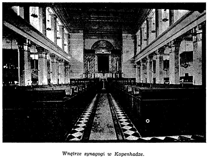 Synagogue in Copenhagen - inside